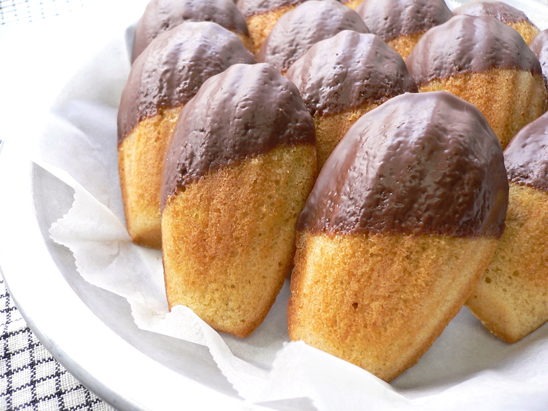 egg, suger, honey, flour, baking powder, banana(lemon juce), butter, chocolate